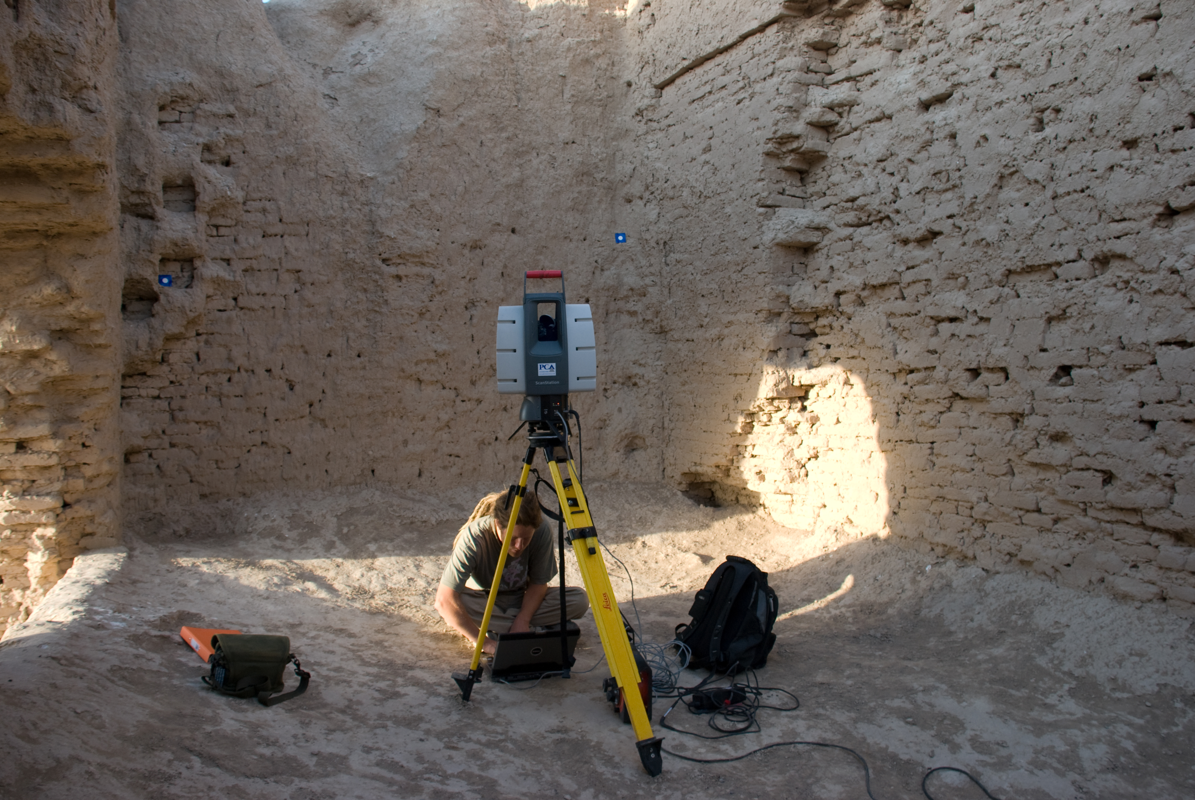 The Kepter Khana of Shahriyar Ark is one of a number of such buildings within the Merv landscape. This one is located immediately west of the Palace structure and is upon the same elevated platform as the palace. Their exact function is unknown: they are long, narrow structures with corrugated walls. Kepter Khana translates as Pigeon House : a name derived from the idea that the numerous square niches lining the interior walls resembled pigeon coupes. The purpose of these niches is in fact unknown; another interpretation being that the buildings were libraries and the niches were shelves for scrolls.